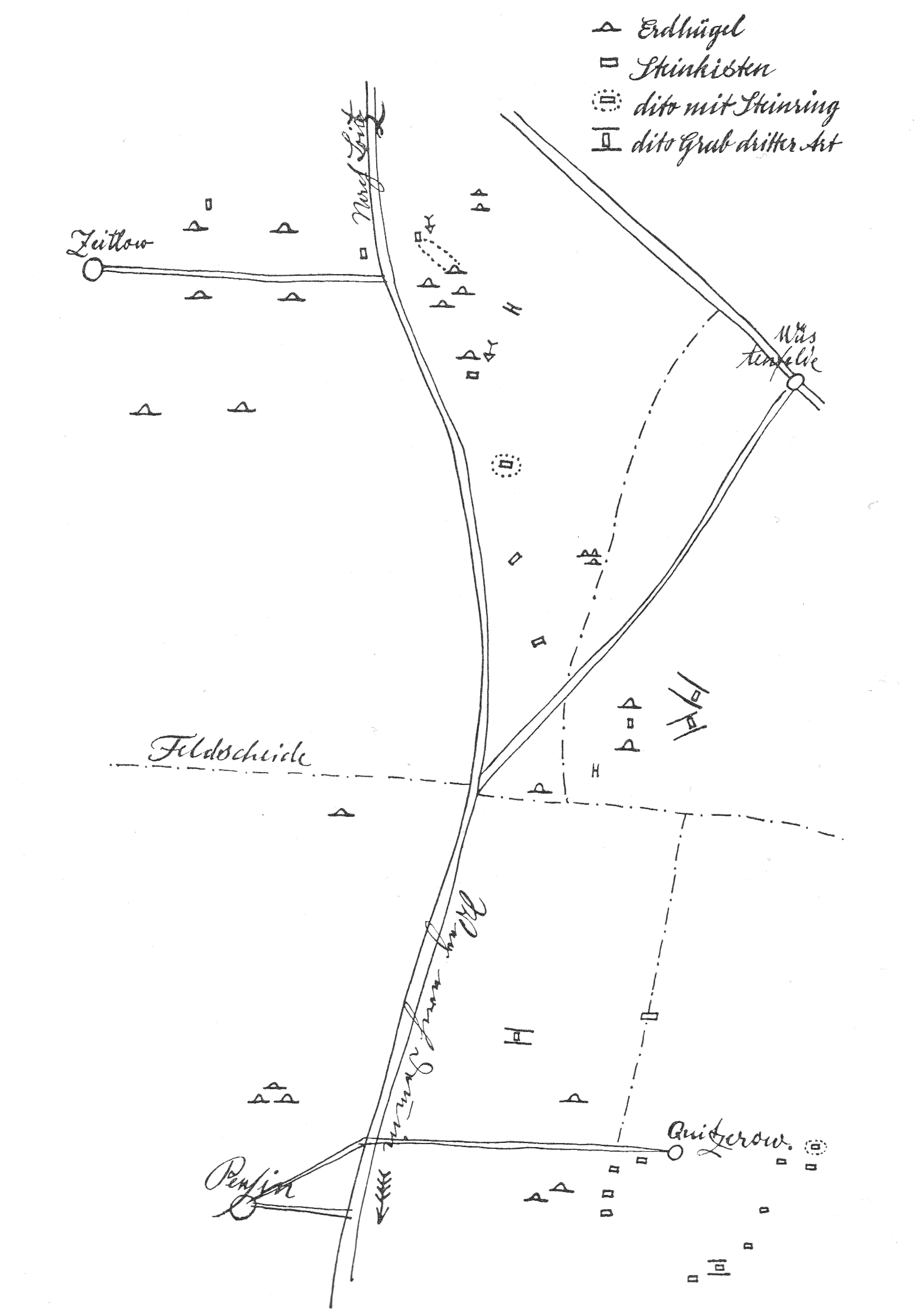 Site map of the megalithic tombs near Zeitlow, Wüstenfelde, Pensin and Quitzerow